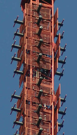 Television transmitter antenna for Channel 6 at the town of Smilde, near Assen, Netherlands. It will be removed in mid-2006. Picture provided by H. van der Ploeg, Drachten